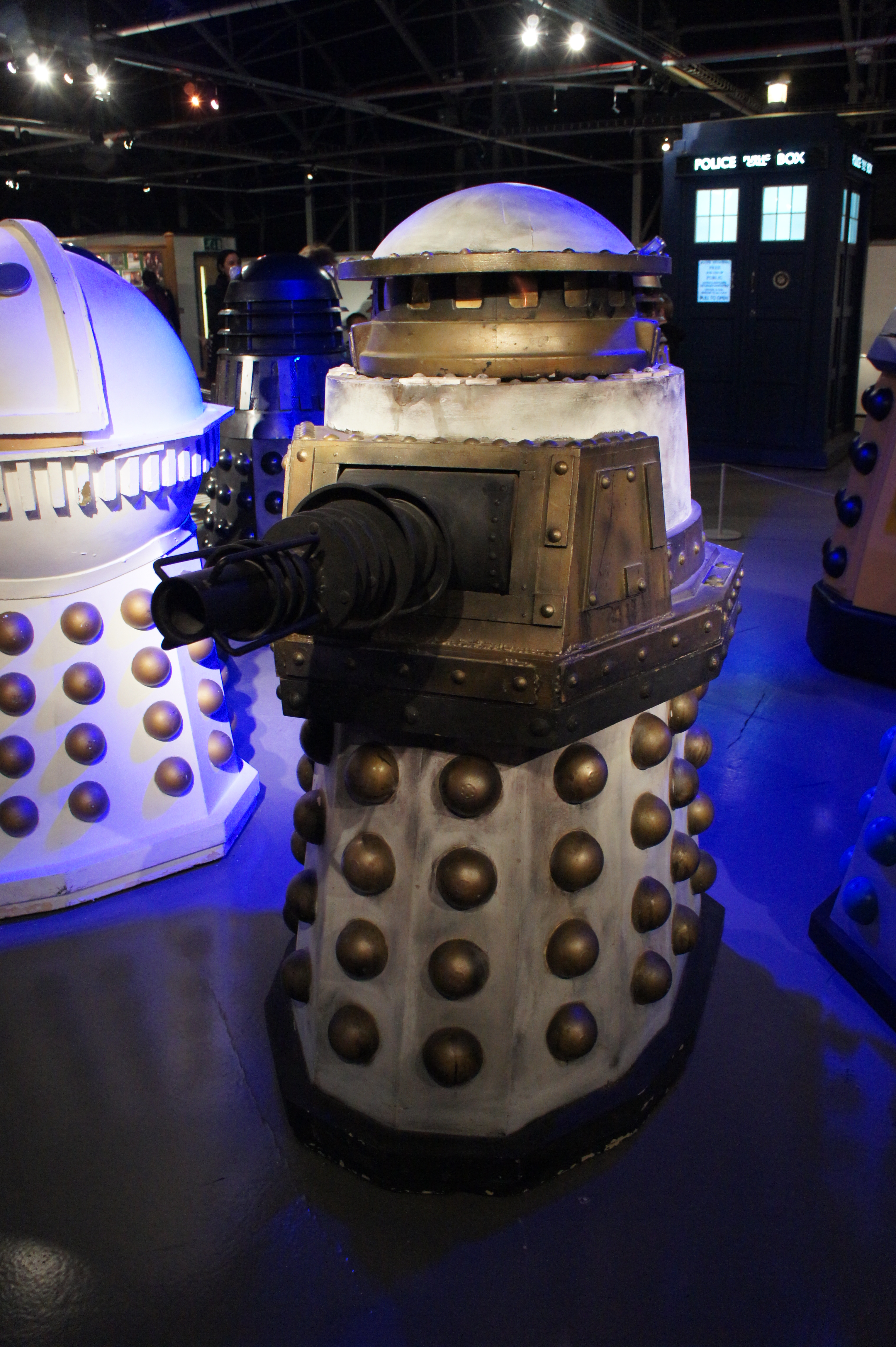 Doctor Who Experience Doctor Who Experience